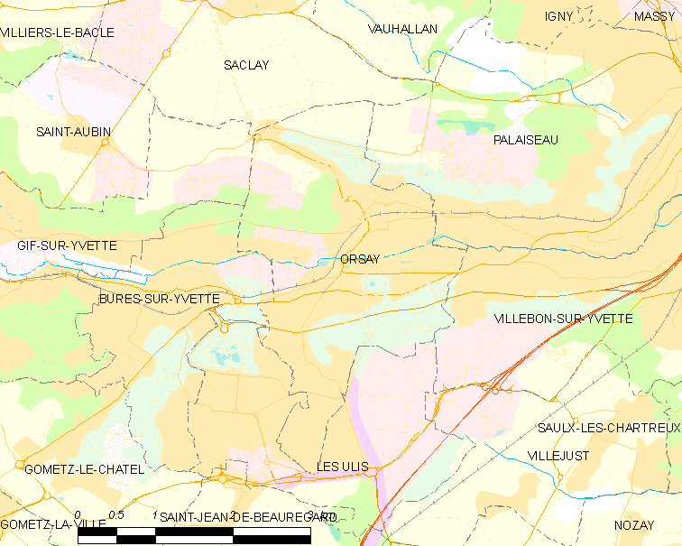 Map of French municipality Orsay